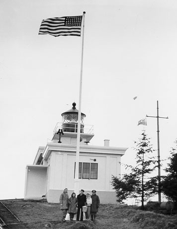 Public Domain statement here; The Guard Island Light is a lighthouse located on a small island near the entrance to the Tongass Narrows, in Clarence Strait in southeastern Alaska. The western entrance to the Behm Canal also lies nearby.